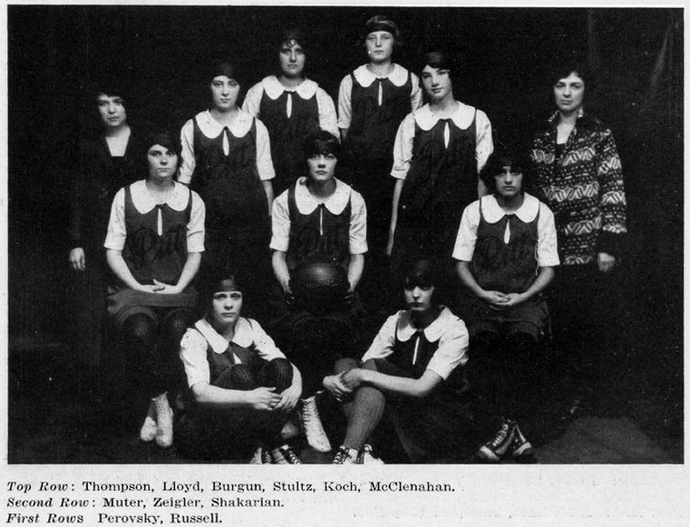 The undefeated 1924-25 undefeated Pitt women's varsity basketbal team. The team went 10-0 and was captained by Elizabeth "Ib" Zeigler, managed by Margaret Thompson, and coached by Margaret A. McClenahan. Among the victories for Pitt that season was a win over Cincinnati, at NYU, and at Temple University which had never before been defeated on its home floor.Top Row: Margaret Thompson (manager), Helen Lloyd (side-center), Kathleen Burgun (guard), Ruth Stultz (forward), Dorothy Koch (center), Margaret McClenahan (coach) Second Row: Jeanne Muter (forward), "Ib" Zeigler (guard), Venus Shakarian (side-center) First Rows: Sylvia Perovsky (side-center), Dorothy Russell (center)